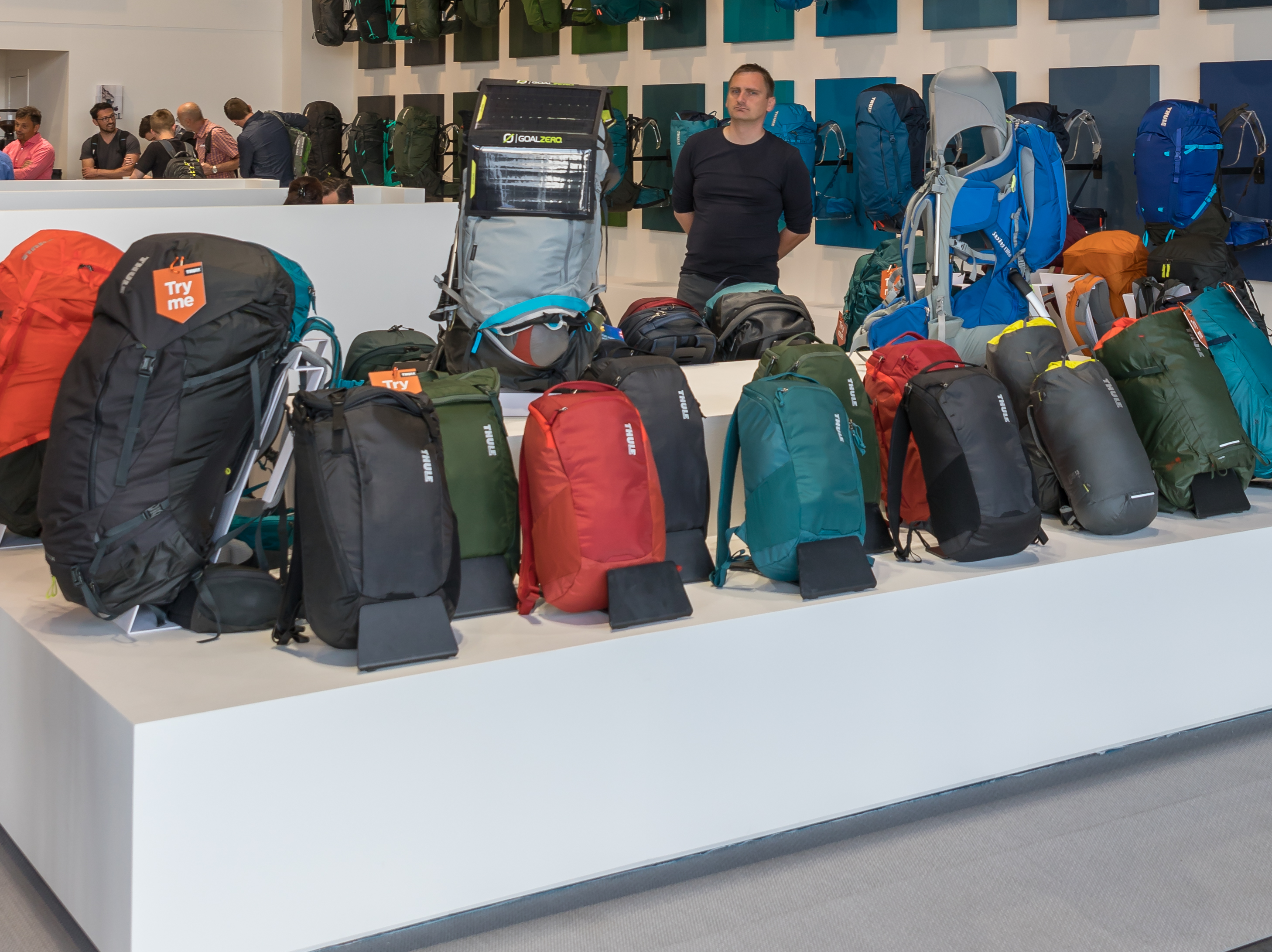 Thule, OutDoor 2018